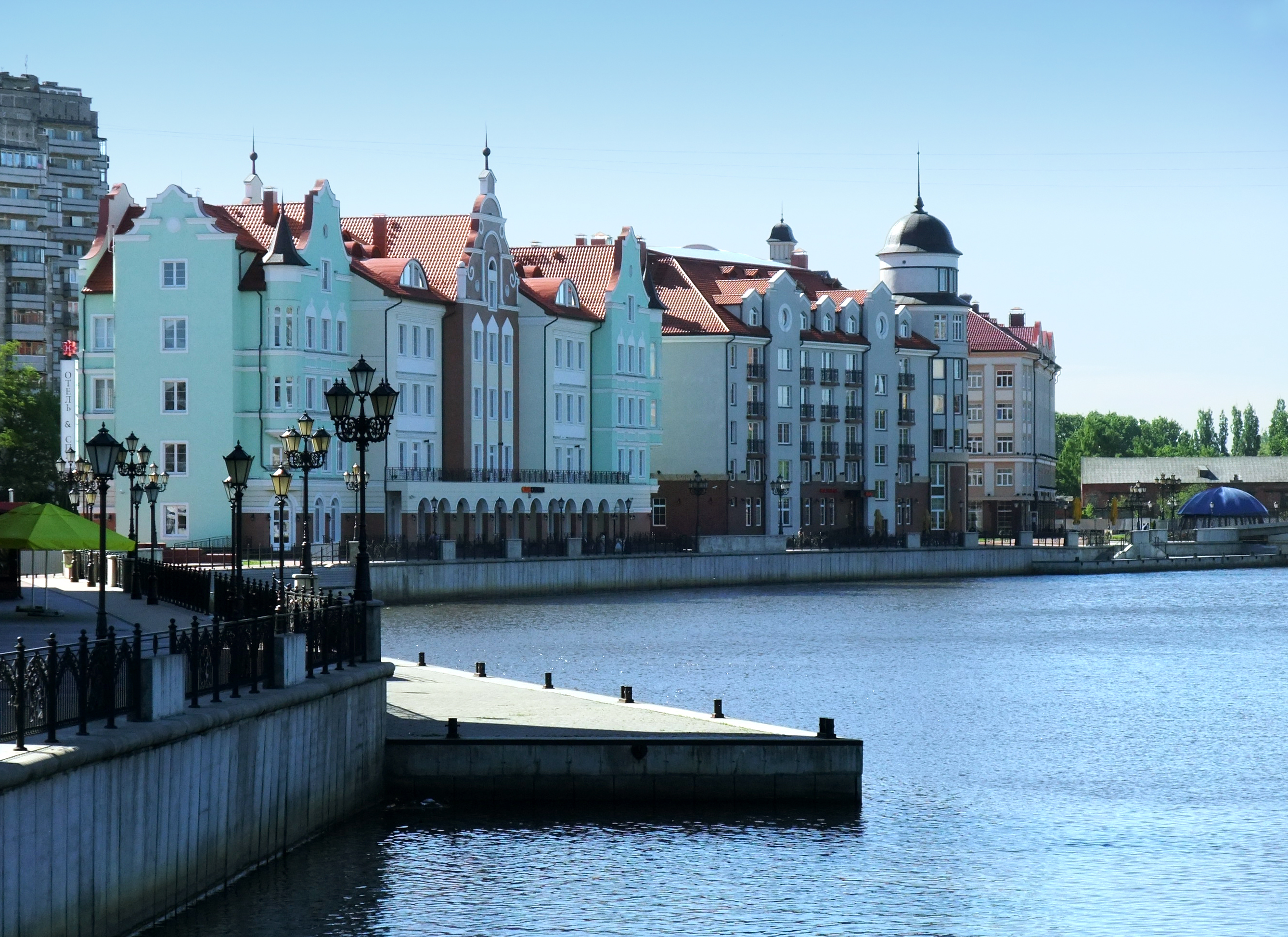 View to the river Pregel in Kaliningrad, Russia.